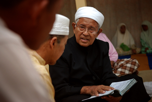 An Ustaz during the Akad Nikah ceremony for a Malay wedding.